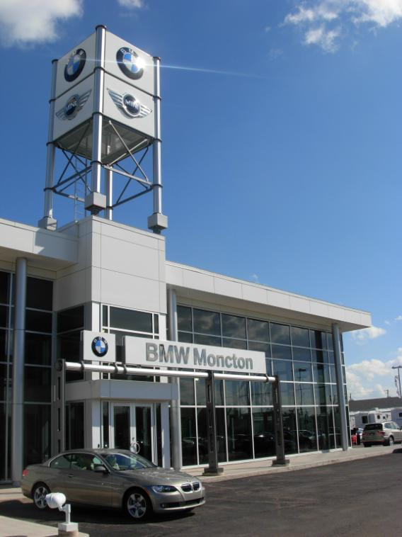 A BMW/MINI Dealership in Moncton